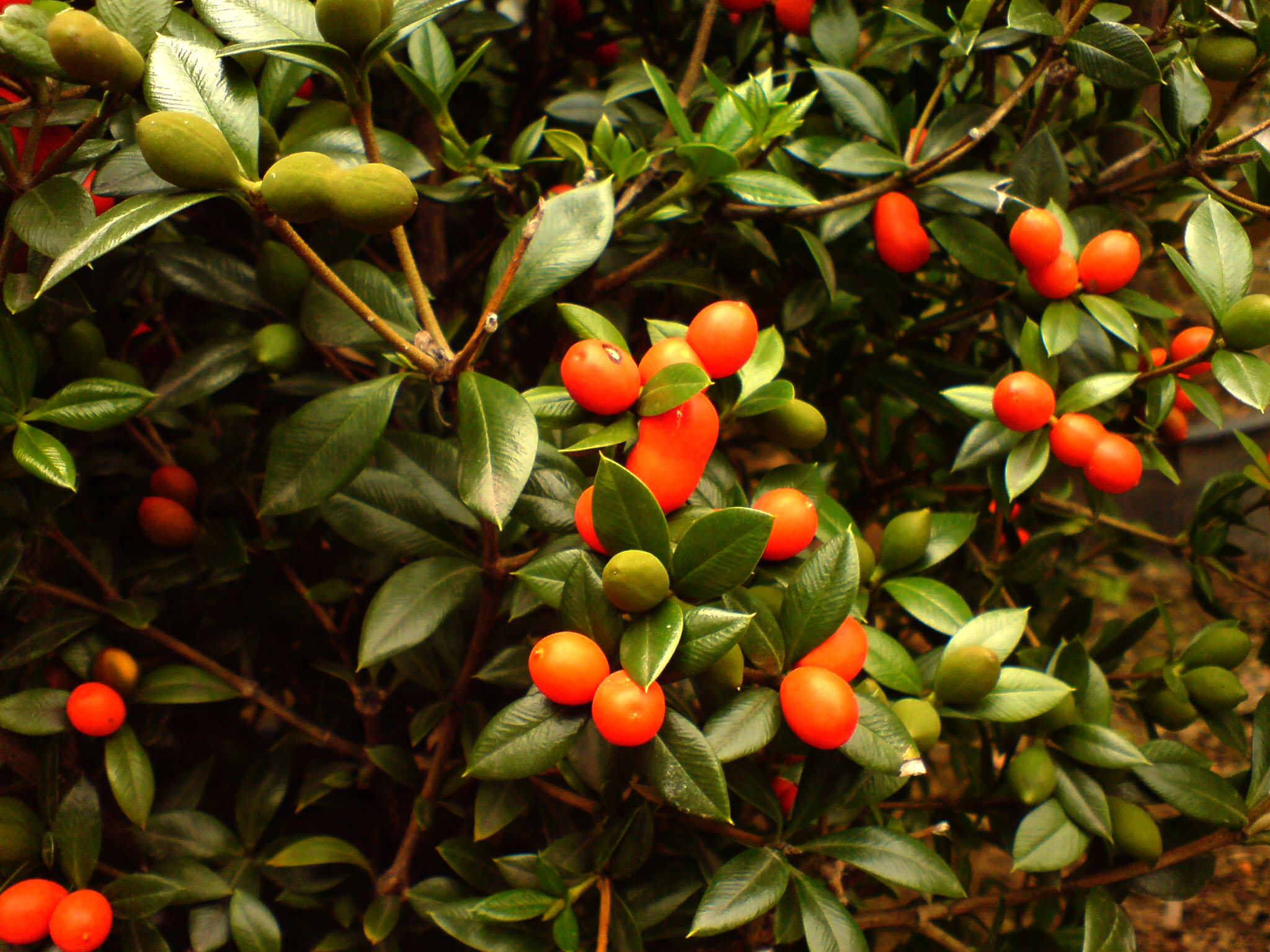 Alyxia ruscifolia - Botanical Garden Göttingen